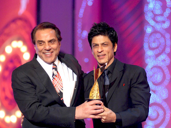 Shahrukh Khan receiving the Apsara Film and Television Producers Guild Awards for Best Actor in readers' choice, 2011.